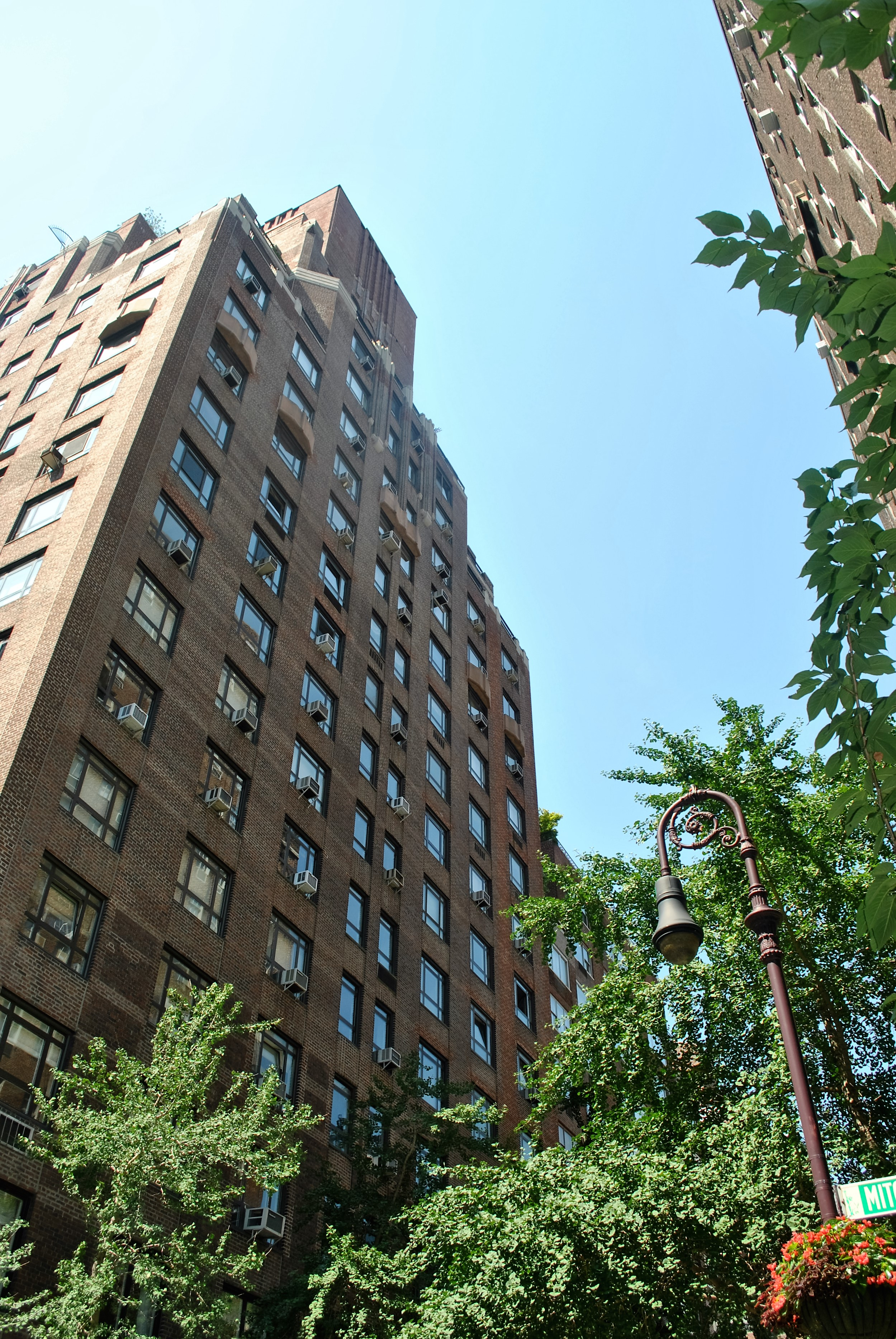 Image originally published in Queer Places: Retracing the Steps of LGBTQ people around the World Authored by Elisa Rolle